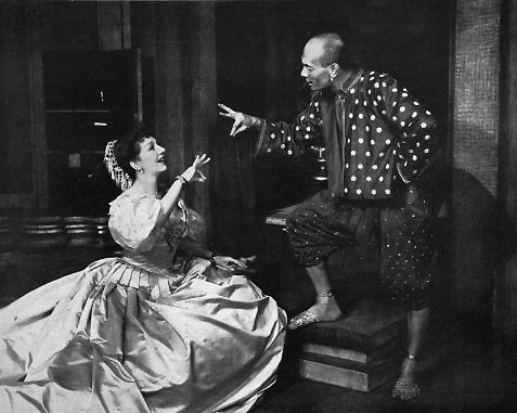 Gertrude Lawrence as Anna and Yul Brynner as the King, from a 1951 souvenir program for The King and I. Lacks any copyright notice, so it is no longer under copyright. Image can be found here.